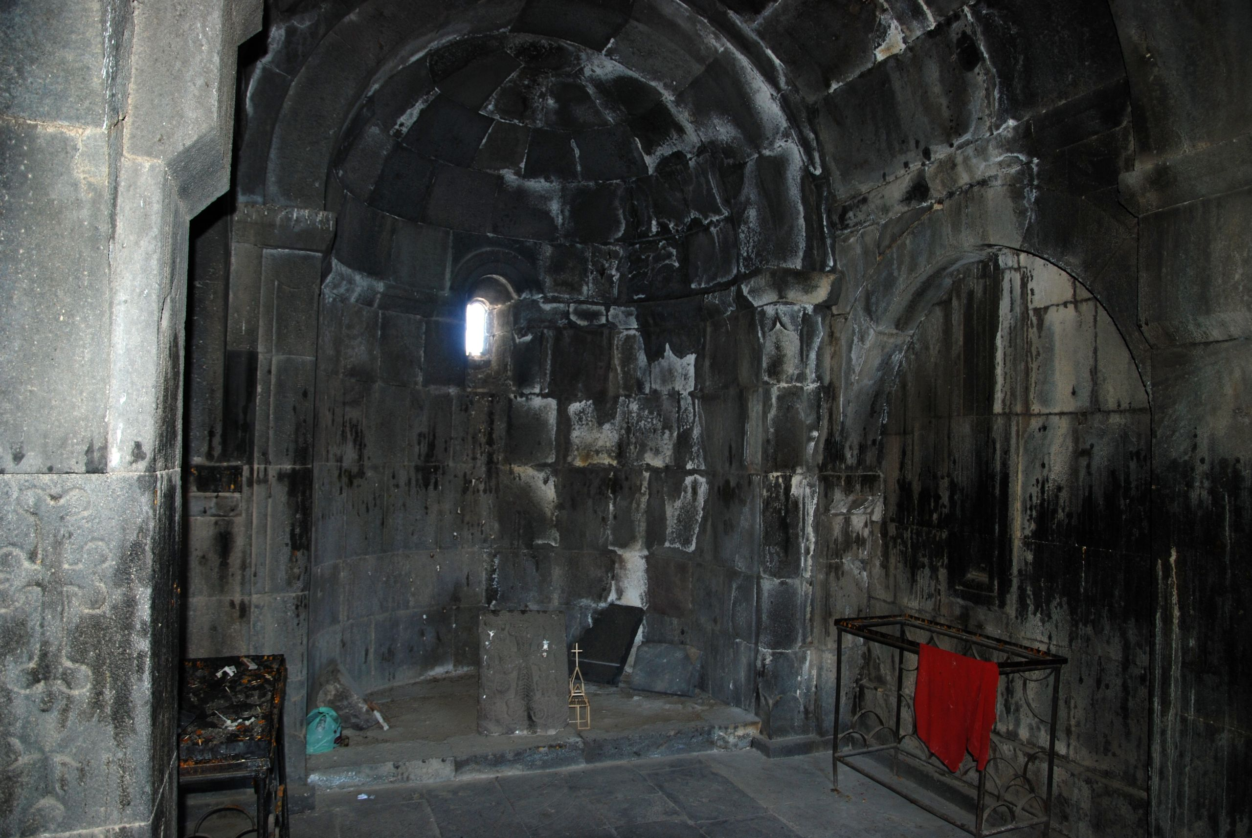 Tanahat, Surp Nshan